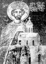 King Levan I of Kakheti in the Cathedral of Gremi